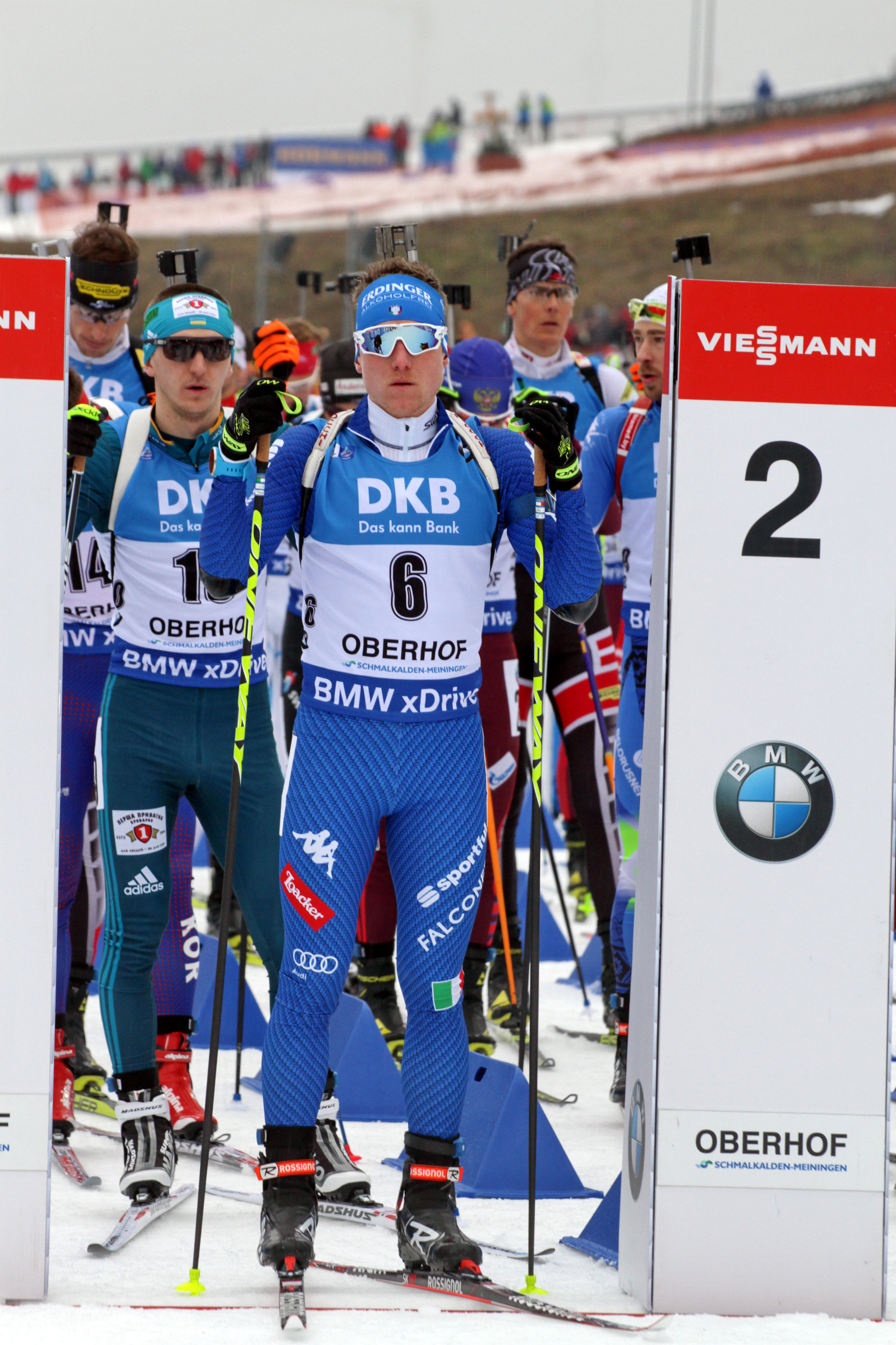 2018 Oberhof Biathlon World Cup - Pursuit Men